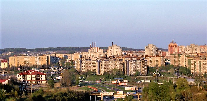 Sykhiv (Lviv neighbourhood) panorama